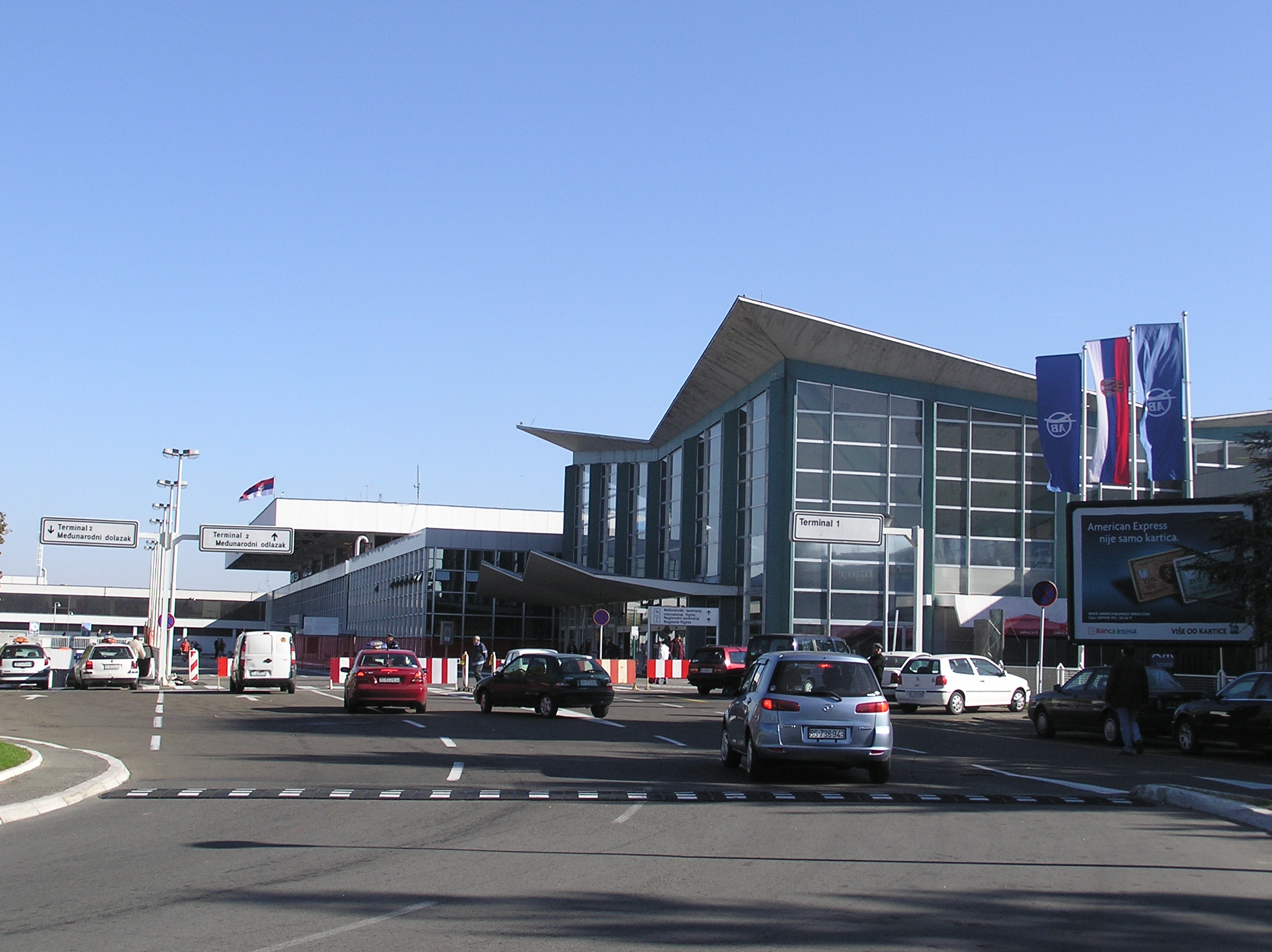 Exterior of the Belgrade Nikola Tesla Airport